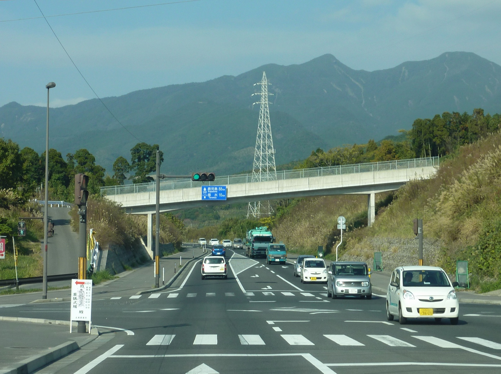 National Route 220 Furue Bypass in Hanaoka-cho, Kanoya City, Kagoshima Prefecture, Japan